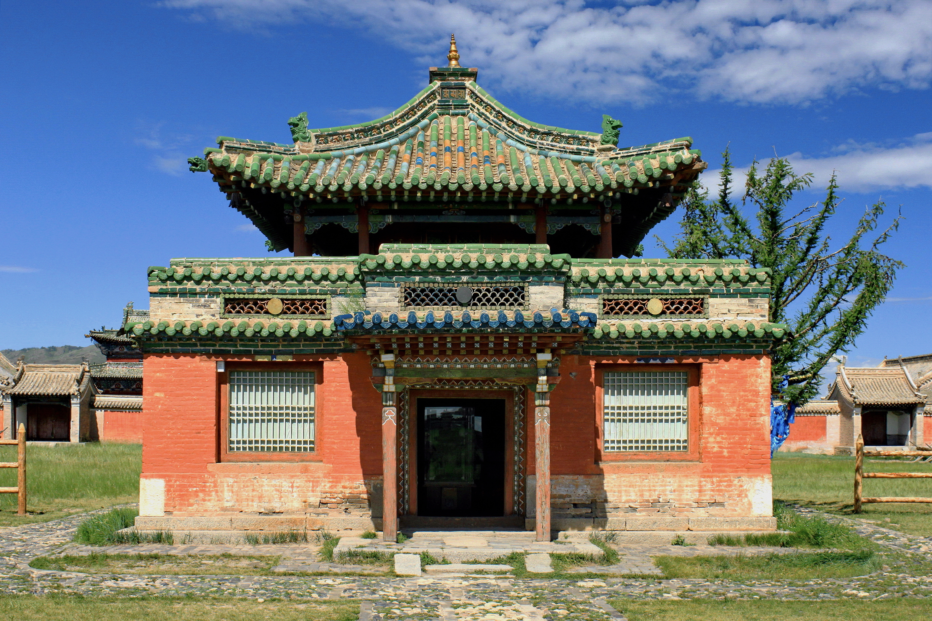 The Temple of Dalai Lama in the Erdene Zuu Monastery. Kharkhorin, Övörkhangai Province, Mongolia.